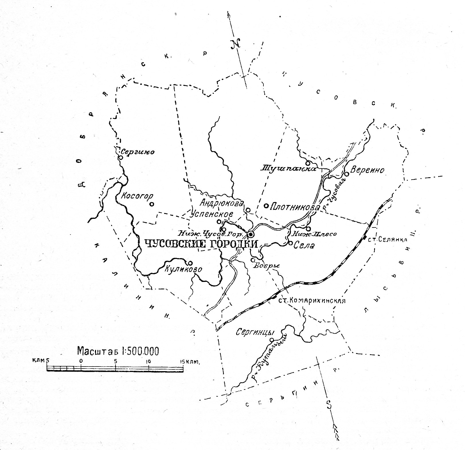 Map of Verkhnegorodkovskiy rayon (Permskiy okrug of Uralic Region of RSFSR) in 1928.